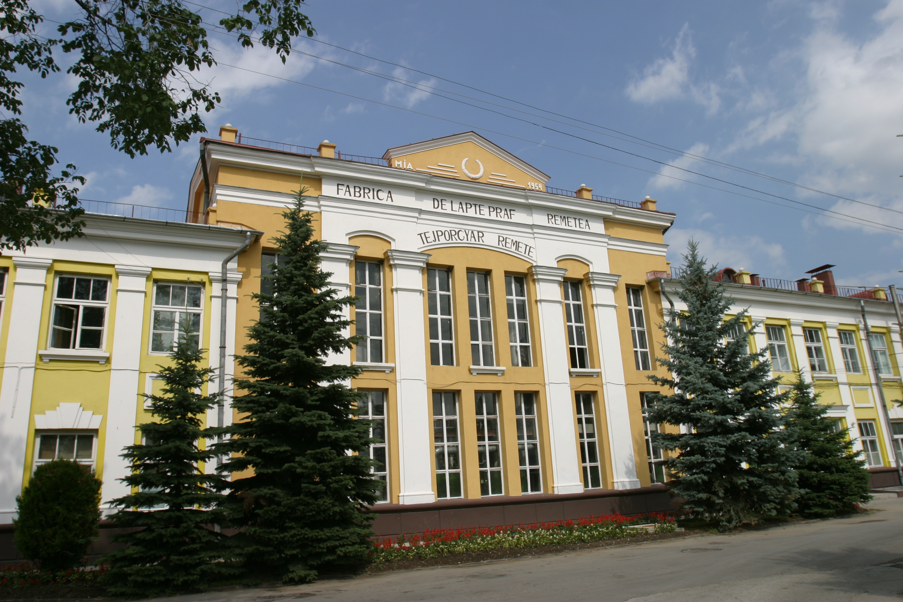 Powdered milk factory in Remetea, Harghita